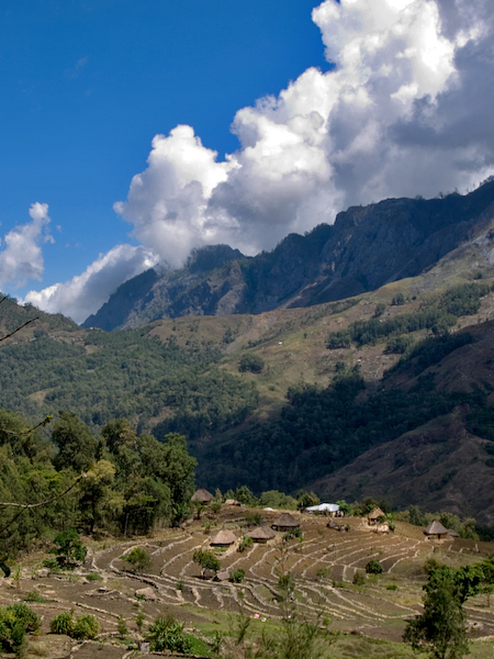 Mountain village in East Timor